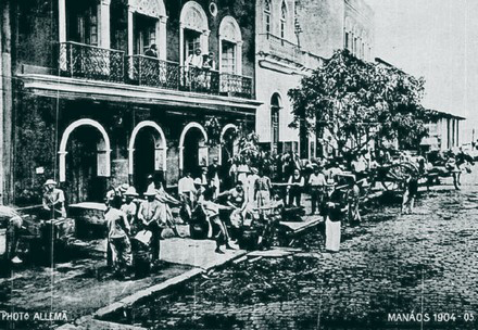 Downtown of the Manaus city, in 1904.